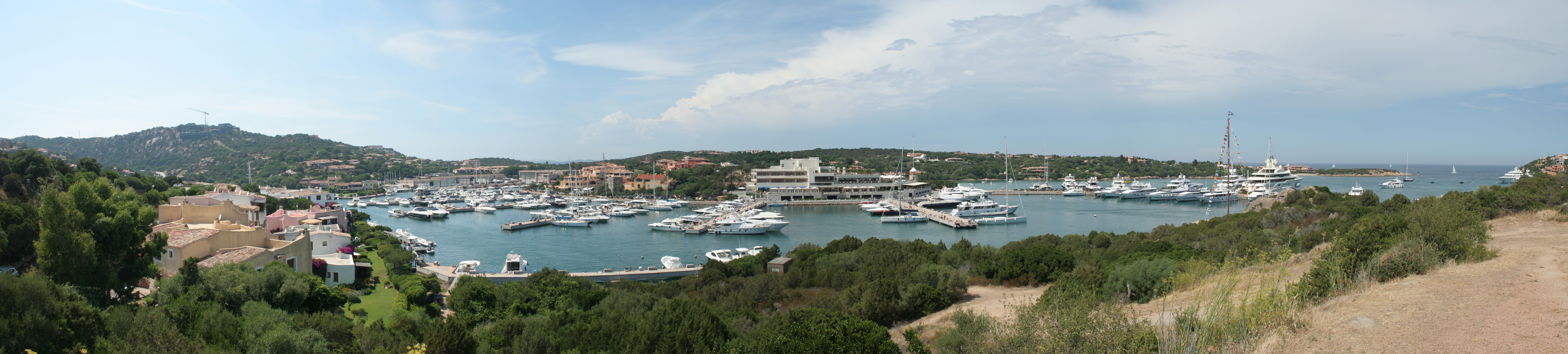 The port of Porto Cervo